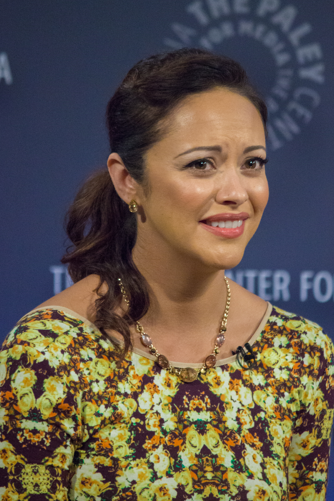 Actress Marisa Ramirez at the New York PaleyFest 2014 for the TV show "Blue Bloods"